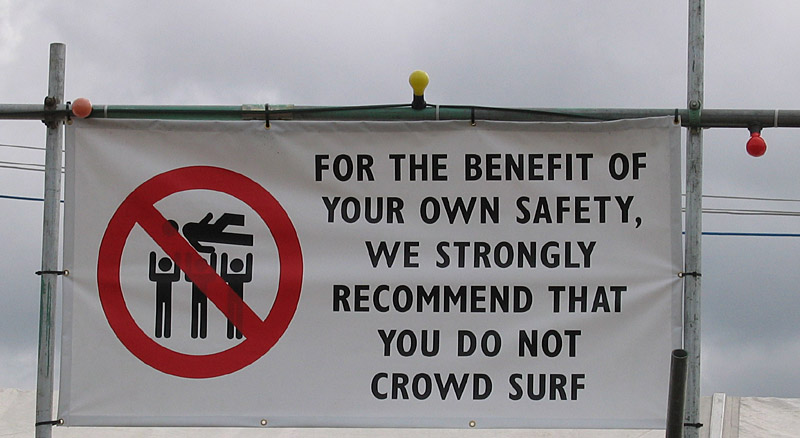 Do not crowd surf sign from the Reading Festival. Taken by C Ford, August 2004. The sign says "For the benefit of your own safety, we strongly recommend that you do not crowd surf"